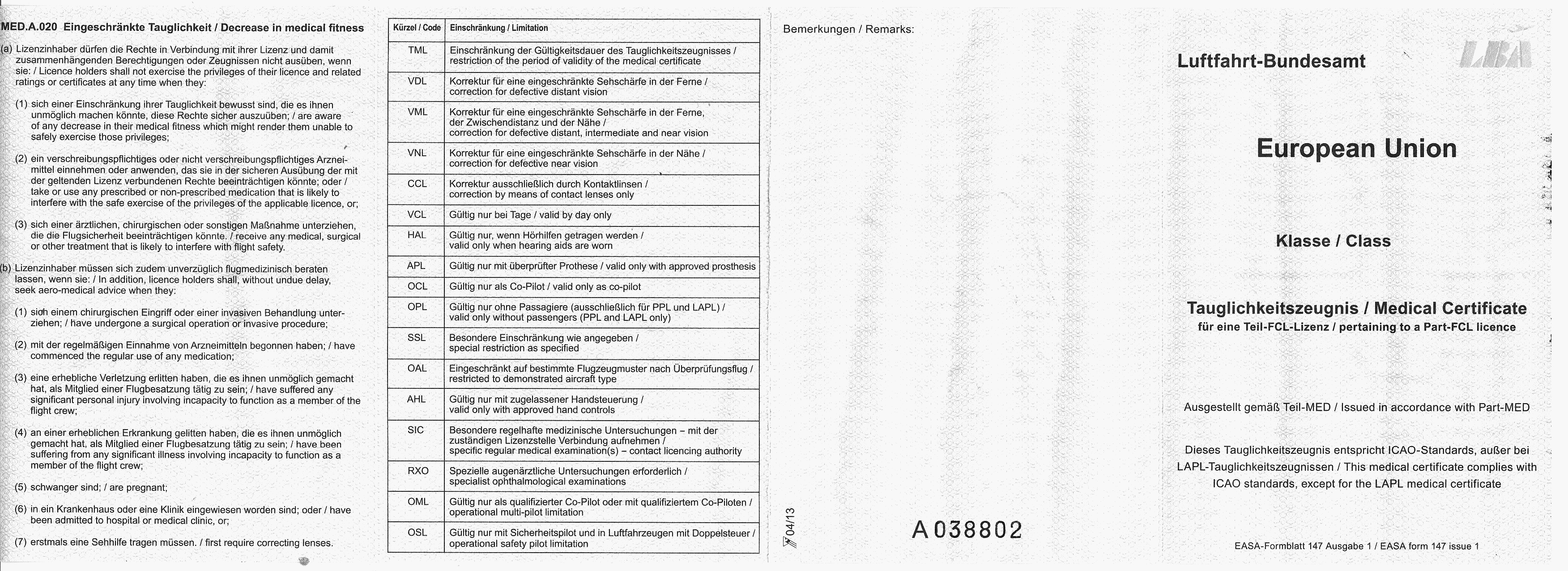 EU Medical EASA Form 147 (German)